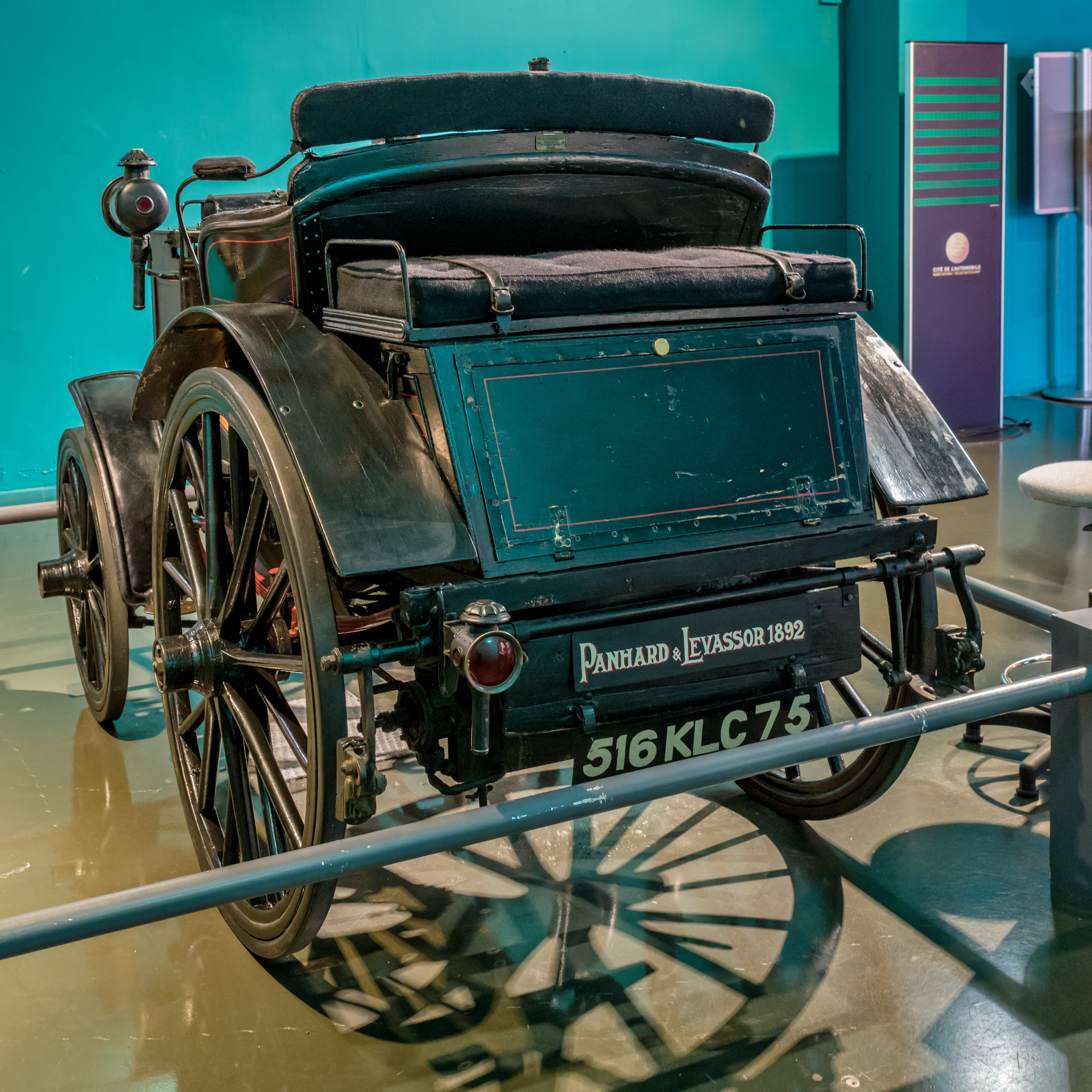 pictures from the Cité de l’Automobile – Musée National – Collection Schlump in Mulhouse, France ptictures from the 10. may 2018 Panhard & Levassor automobiles